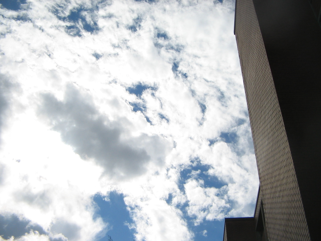 Clouds in cool airmass after cold front